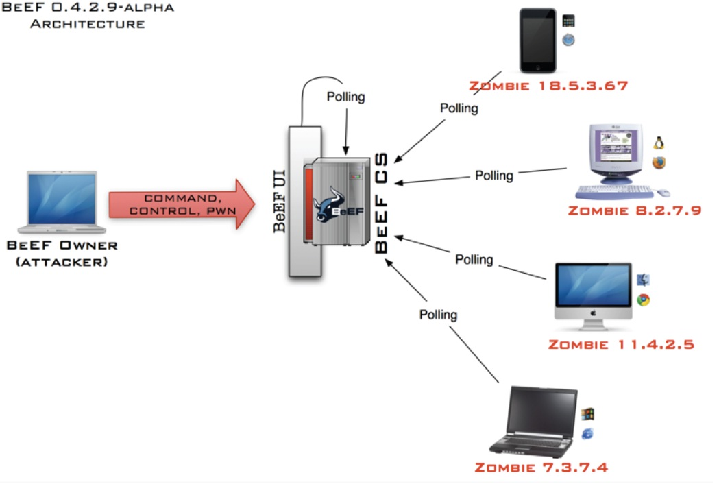 beef method